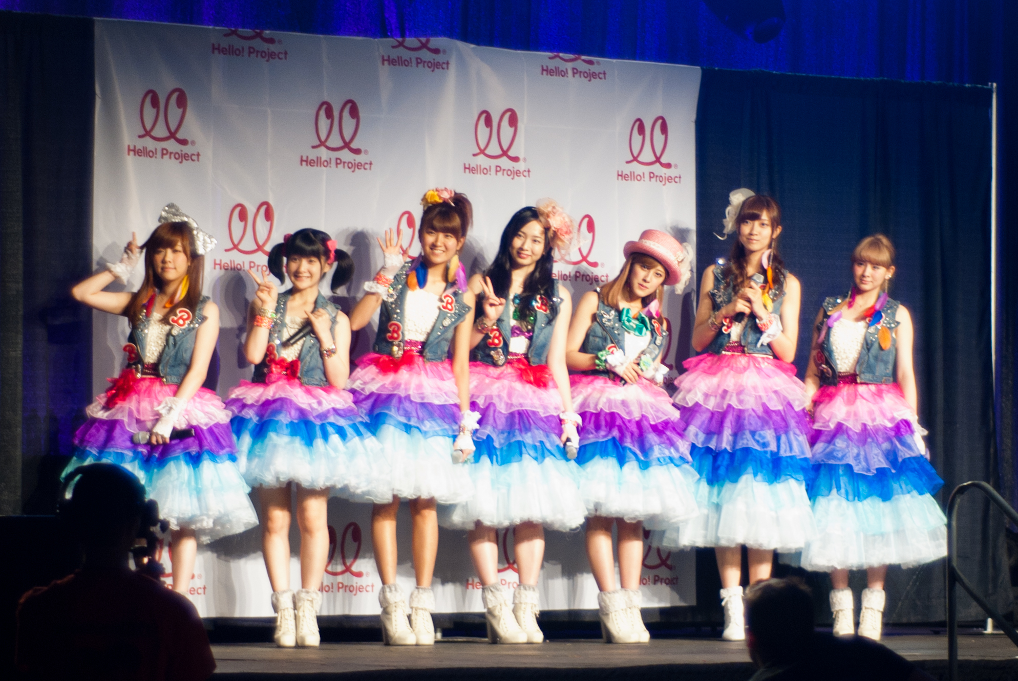 Berryz Kobo at the Q&A session at AnimeNEXT 2012.